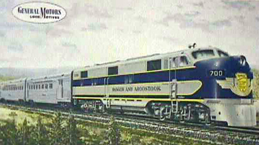 Postcard depiction of the Bangor and Aroostook Railroad's passenger train "The Aroostook Flyer", which traveled in northern Maine. The train was equipped with coach and a buffet lounge car-did not have any diner or sleeping facilities.